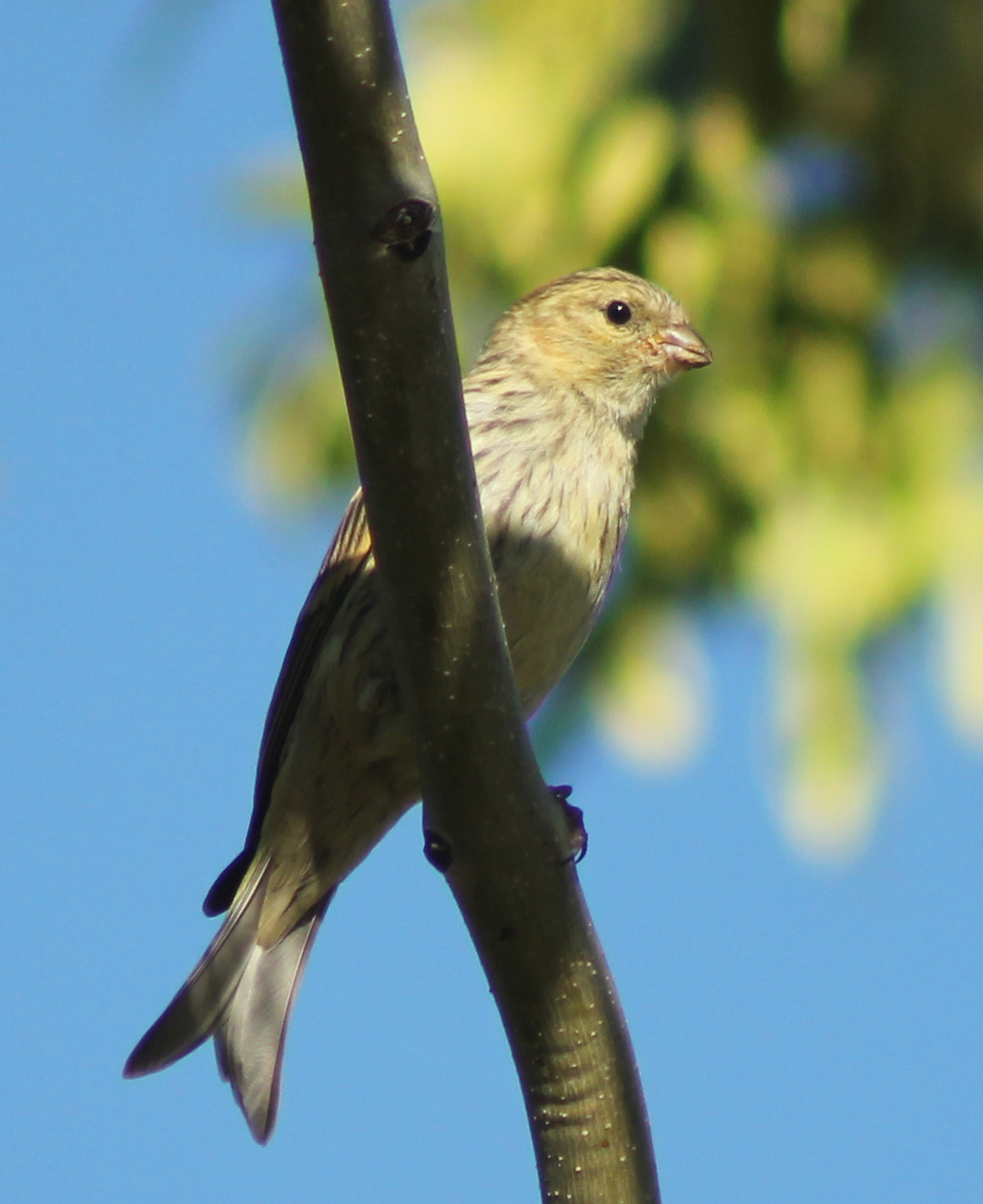 A juvenile European Serin (Serinus serinus) in Madrid (Spain).